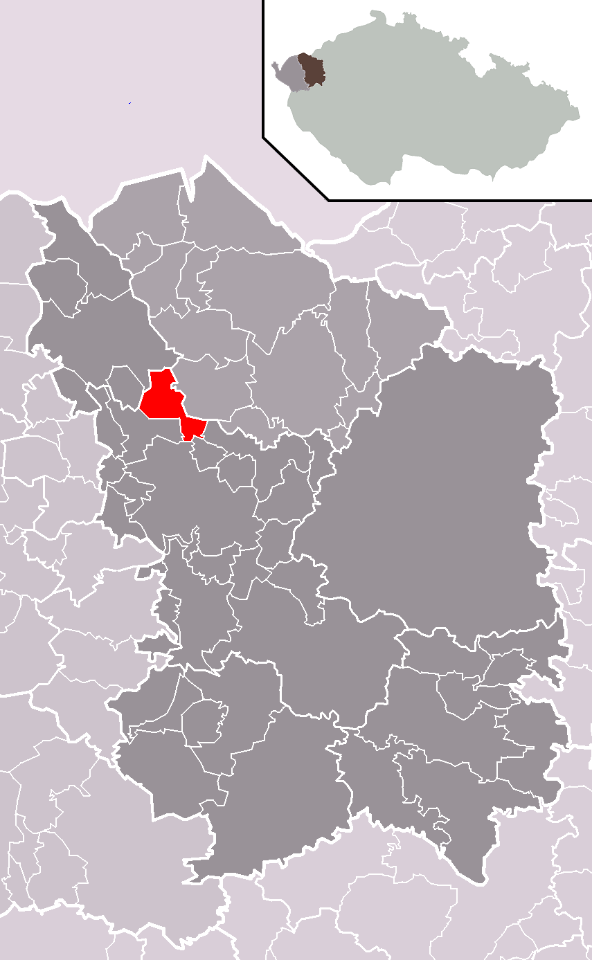 Location of Děpoltovice municipality within Karlovy Vary District and administrative area of Karlovy Vary as a Municipality with Extended Competence.